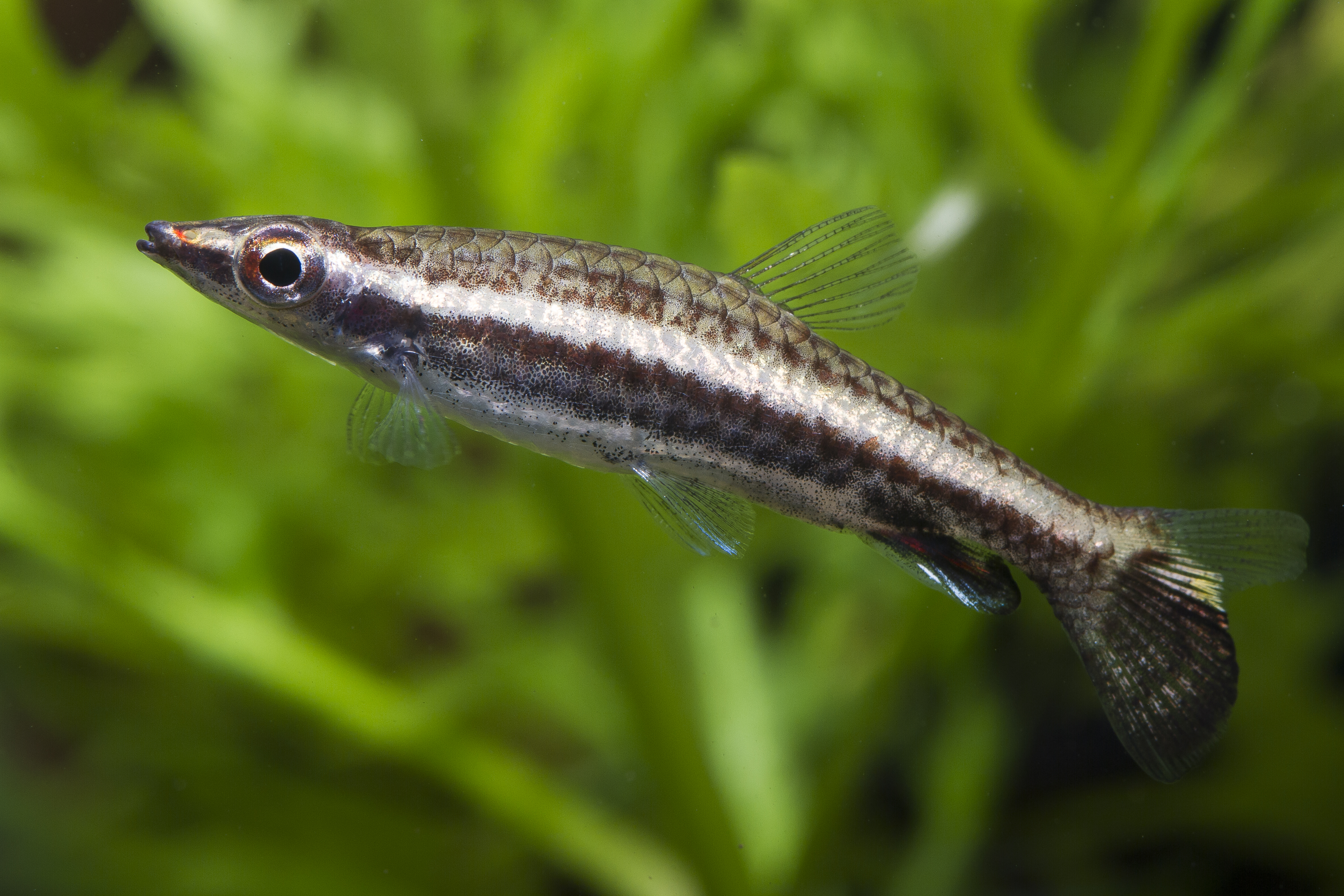 Nannostomus eques